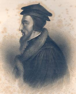 Engraved from the original oil painting in the University Library of Geneva, this is considered Calvin's best likeness.